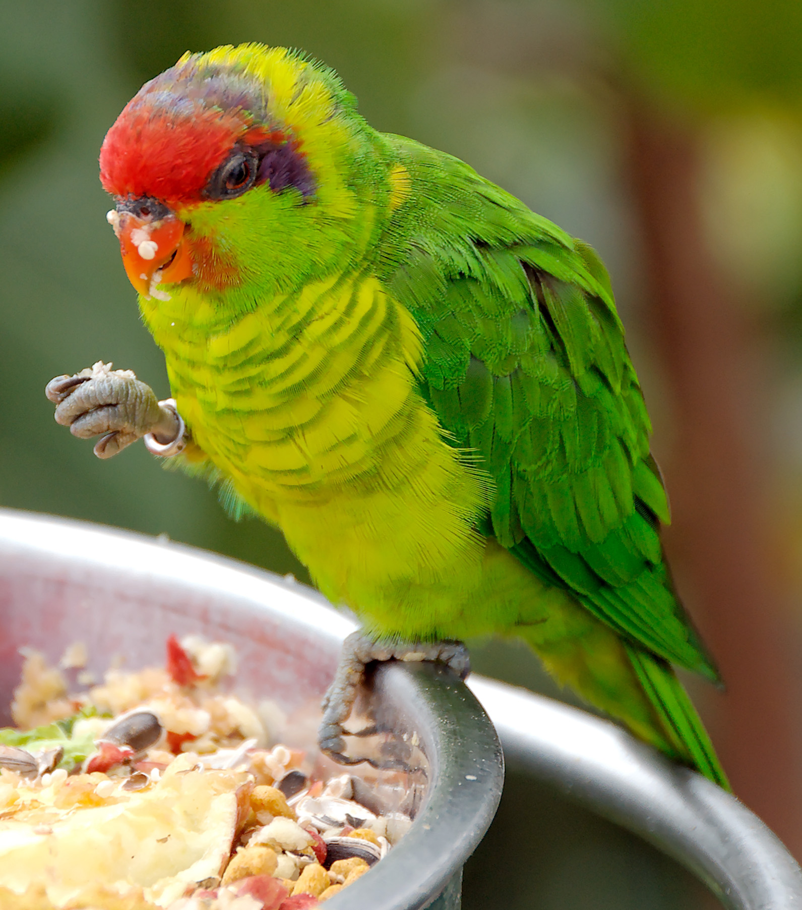 Iris Lorikeet (Psitteuteles iris) at San Deigo Zoo, USA.